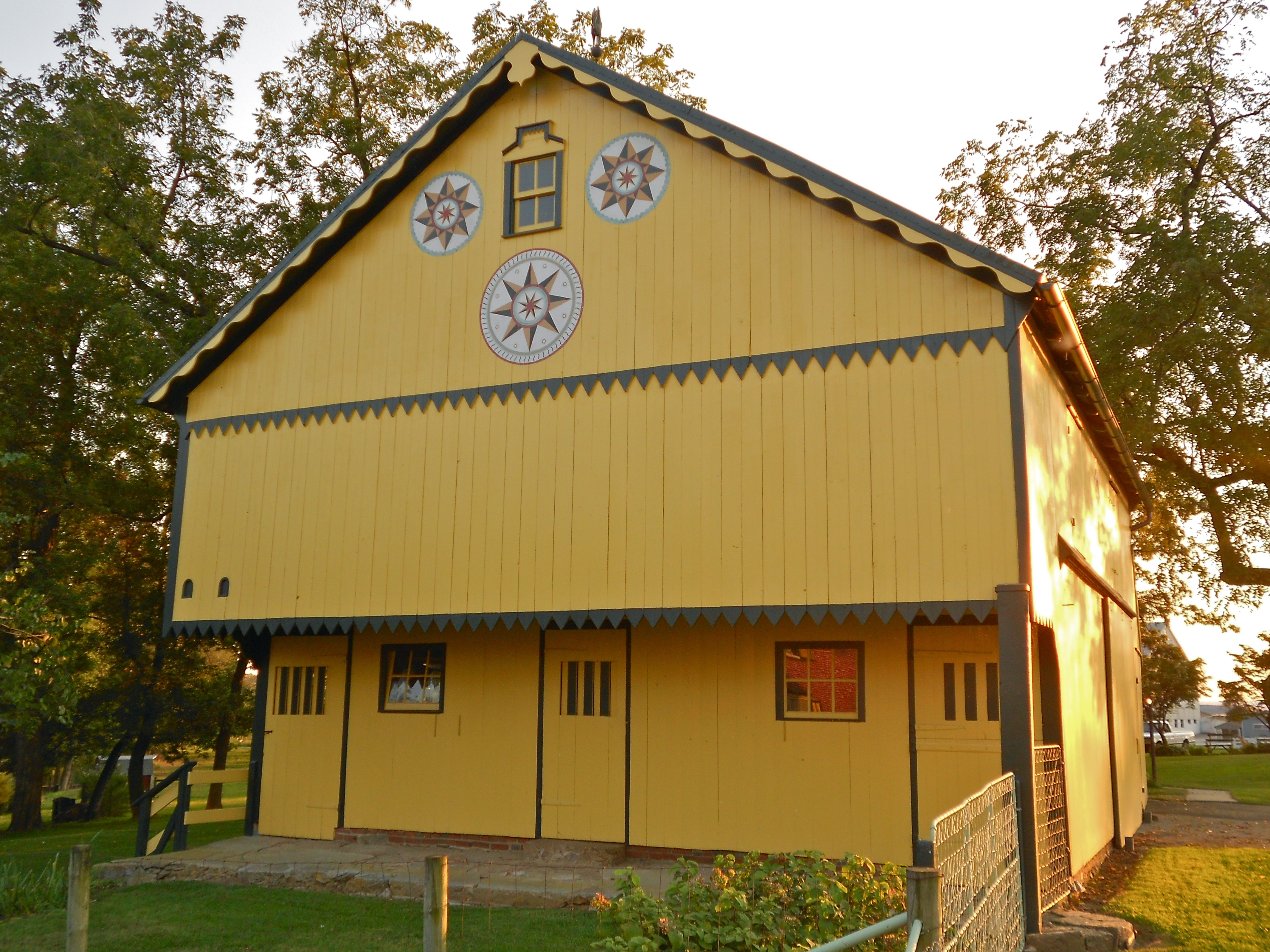 Mascot Roller Mills barn at the Mascot Roller Mill in NE Lancaster County, Pennsylvania. Note the hex signs, based on the compass rose pattern, painted on the historic barn